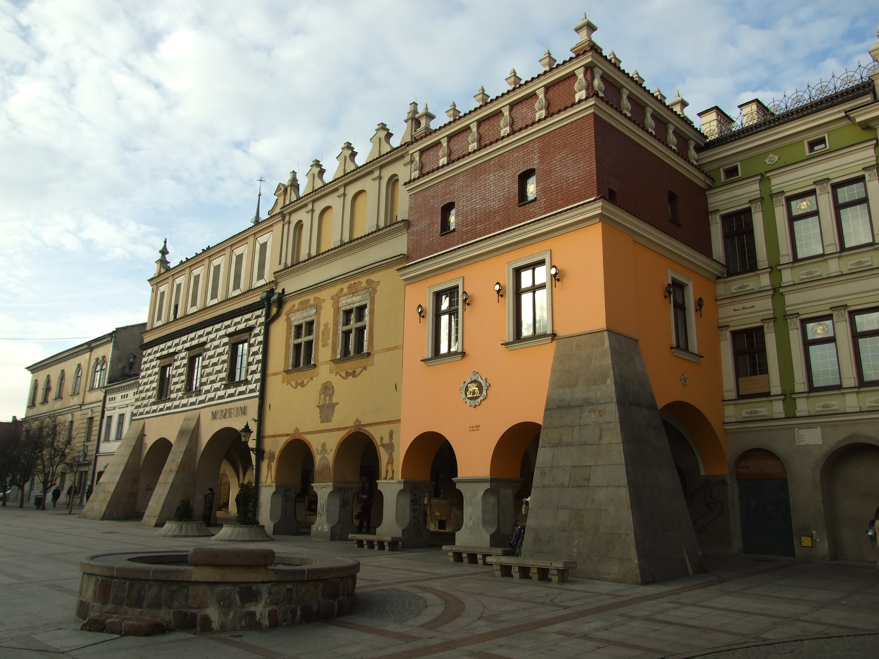 Historic houses at Rynek square in Tarnów, city in Lesser Polish Voivodship, Polandhelp